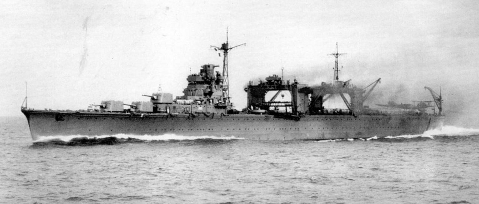 Japanese seaplane carrier Nisshin, in speed testing.